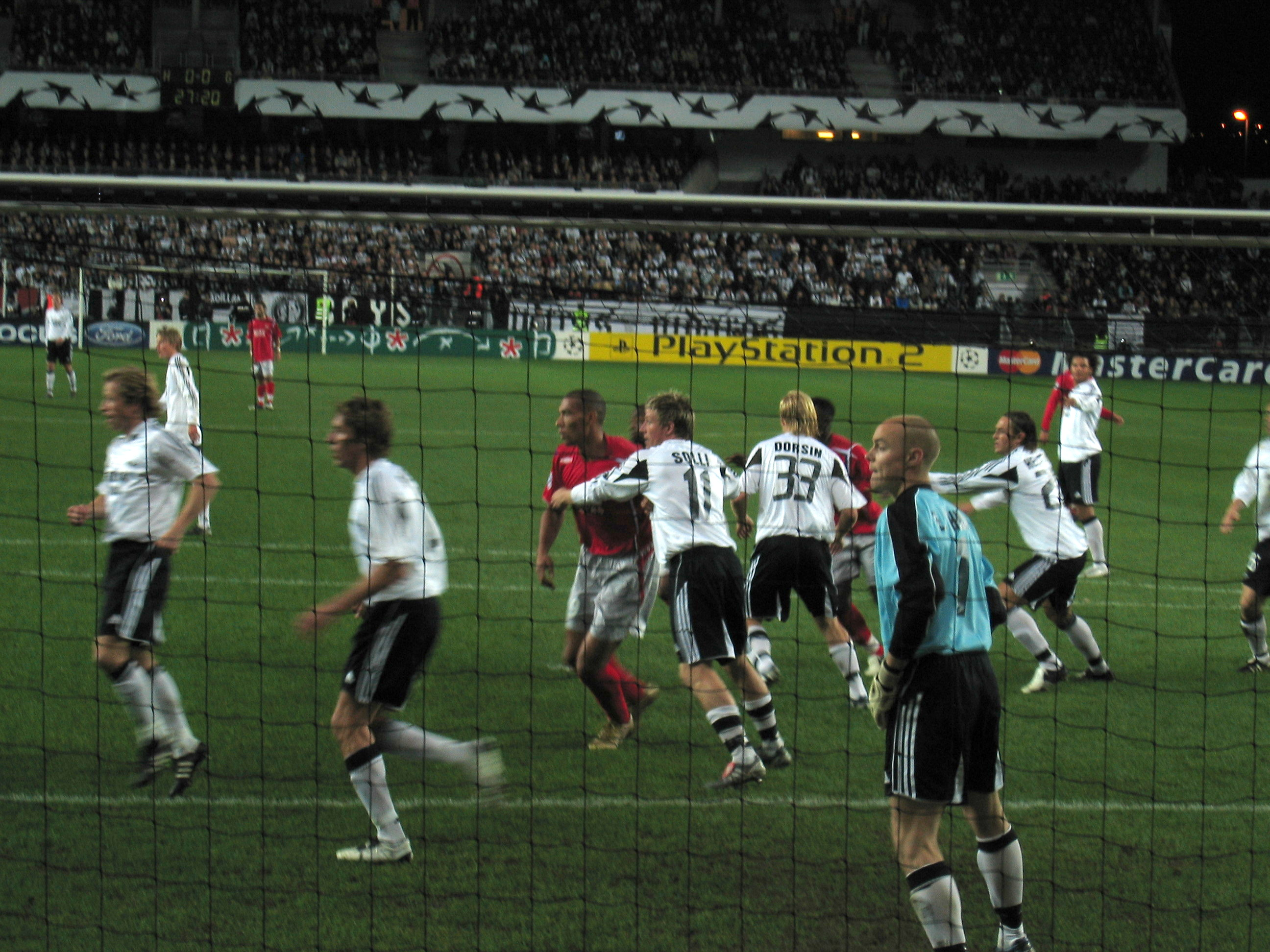 Picture from Rosenborg vs Lyon in the Champions League on Lerkendal. Result was RBK 0 - 1 Lyon.